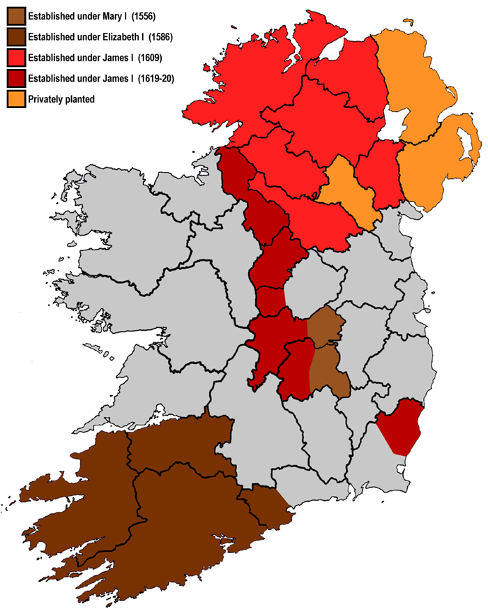 A map highlighting the areas subjected to British plantations in Ireland. Although the plantations in Munster did not cover the entire shaded area, it has been simplified for the purposes of this map. Modern county boundaries are also shown.